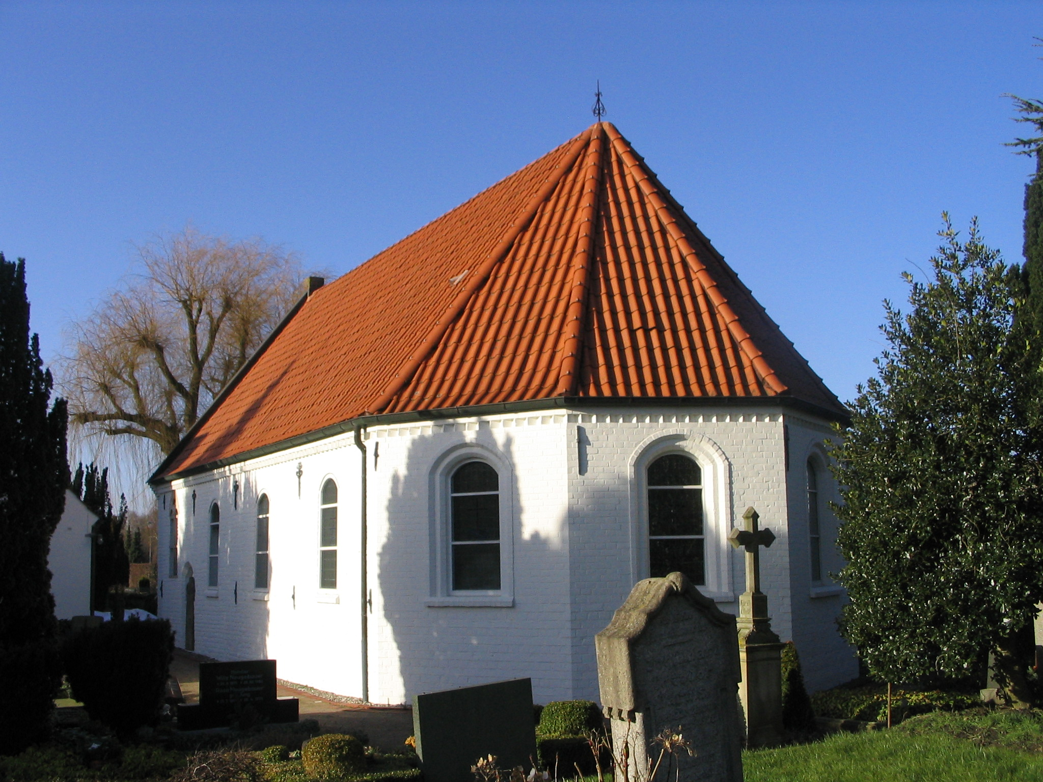 St.-Annen-Kapelle Jever